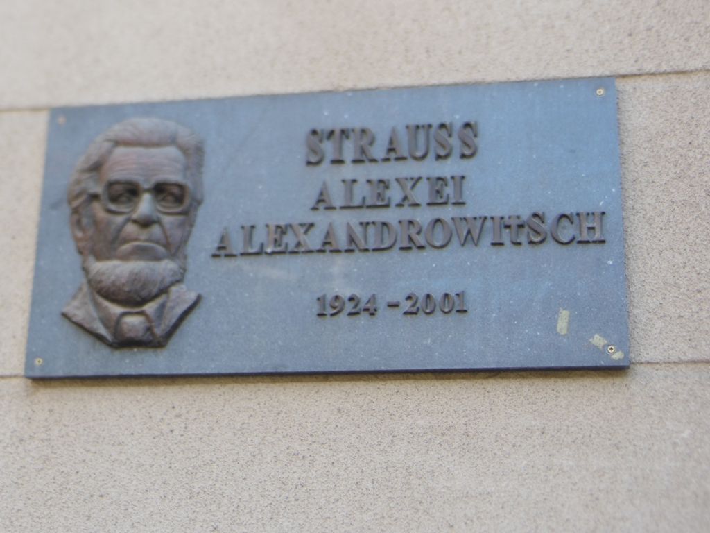 Memorial plate on Deutsches Haus in Bishkek